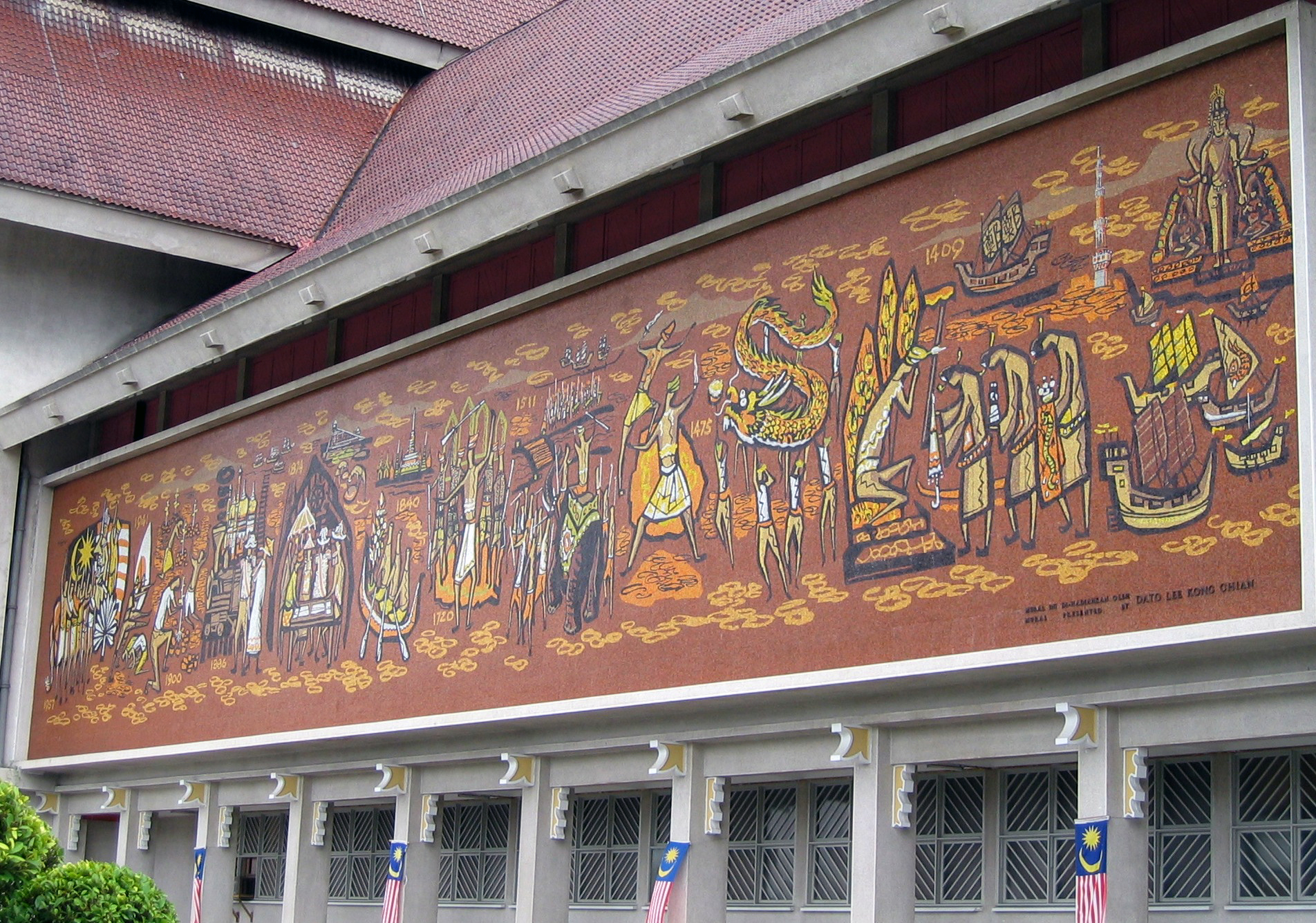 Frieze at the National Museum KL Malaysia Taken by Dave Sumpner